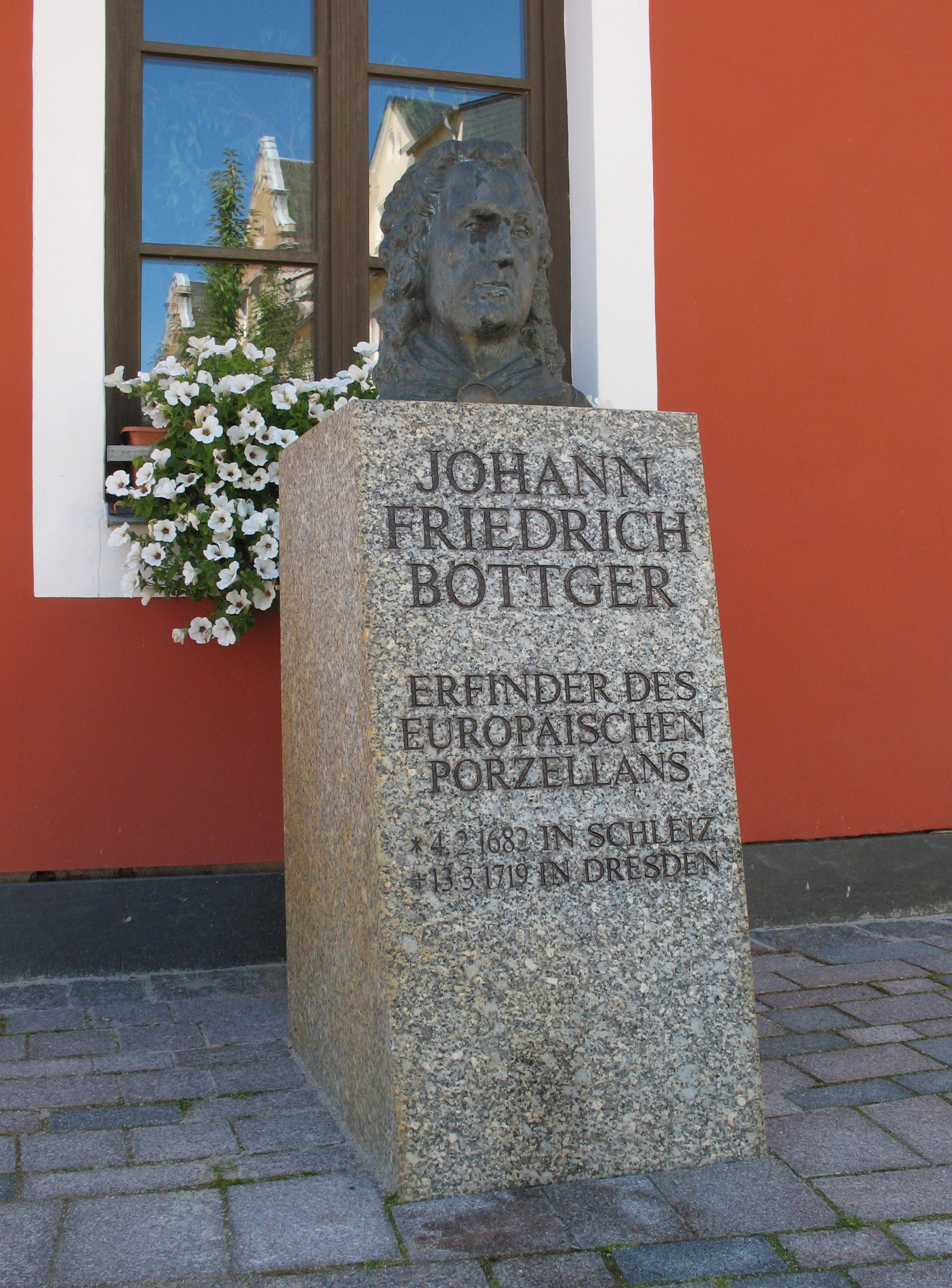 Memorial for Johann Friedrich Böttger in Schleiz in Thuringia, Germany